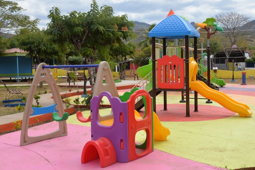 El patio de recreo en el parque central, El JIcaral, NIcaragua.